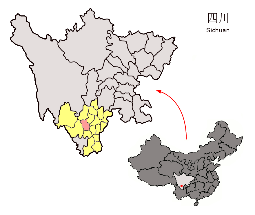 Location of Xichang City (pink) and Liangshan Prefecture (yellow) within Sichuan province of China Map drawn in september 2007 using various sources, mainly : Sichuan province administrative regions GIS data: 1:1M, County level, 1990 Sichuan Counties map from